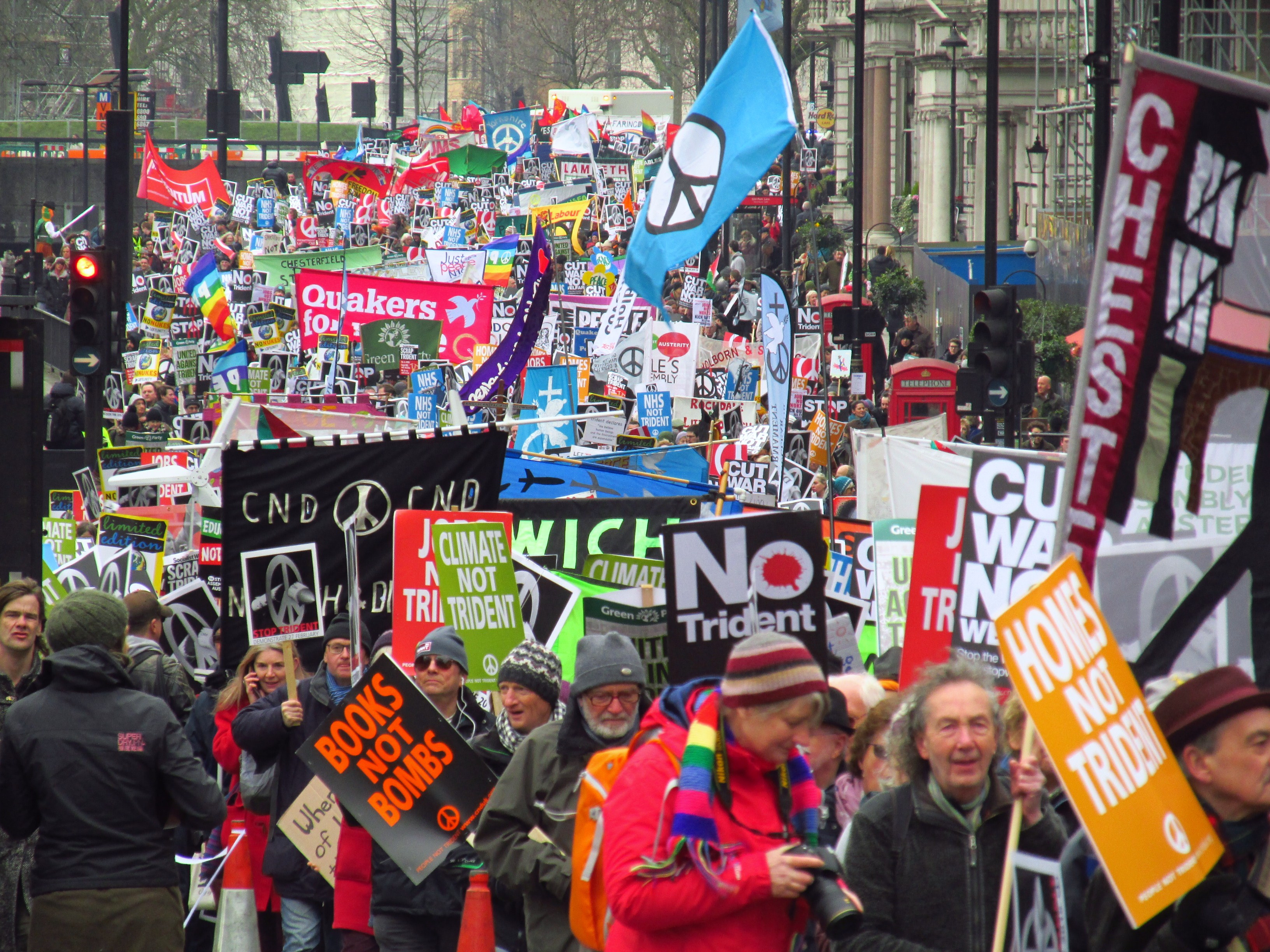 Stop Trident CND Demo February 27 2016 043 Piccadilly (16)